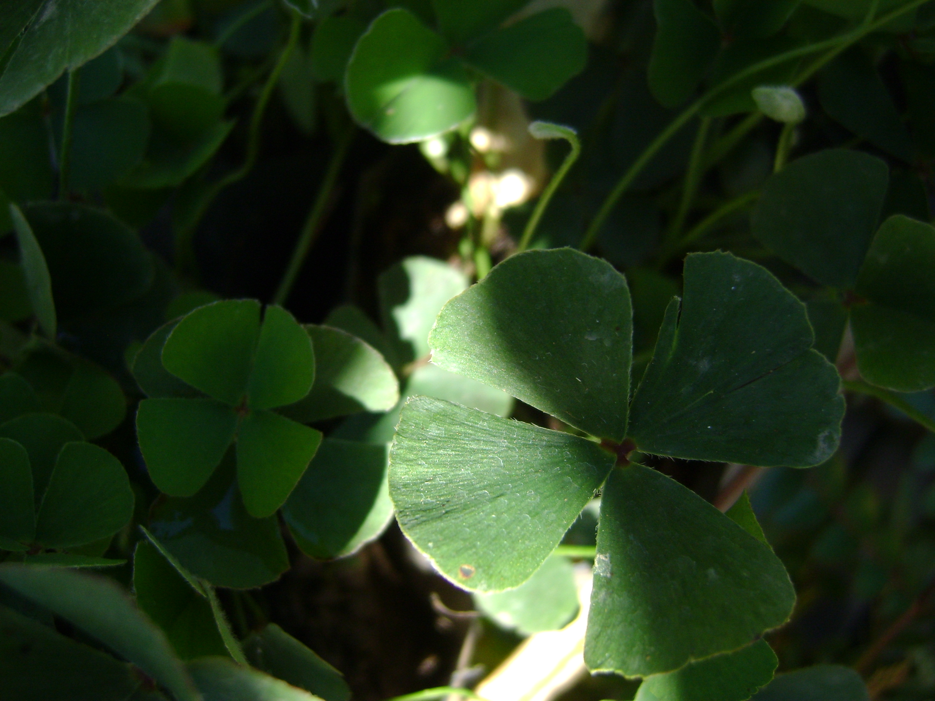 Marsilea sp.